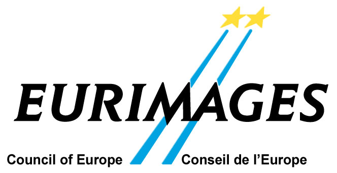 Eurimages logo